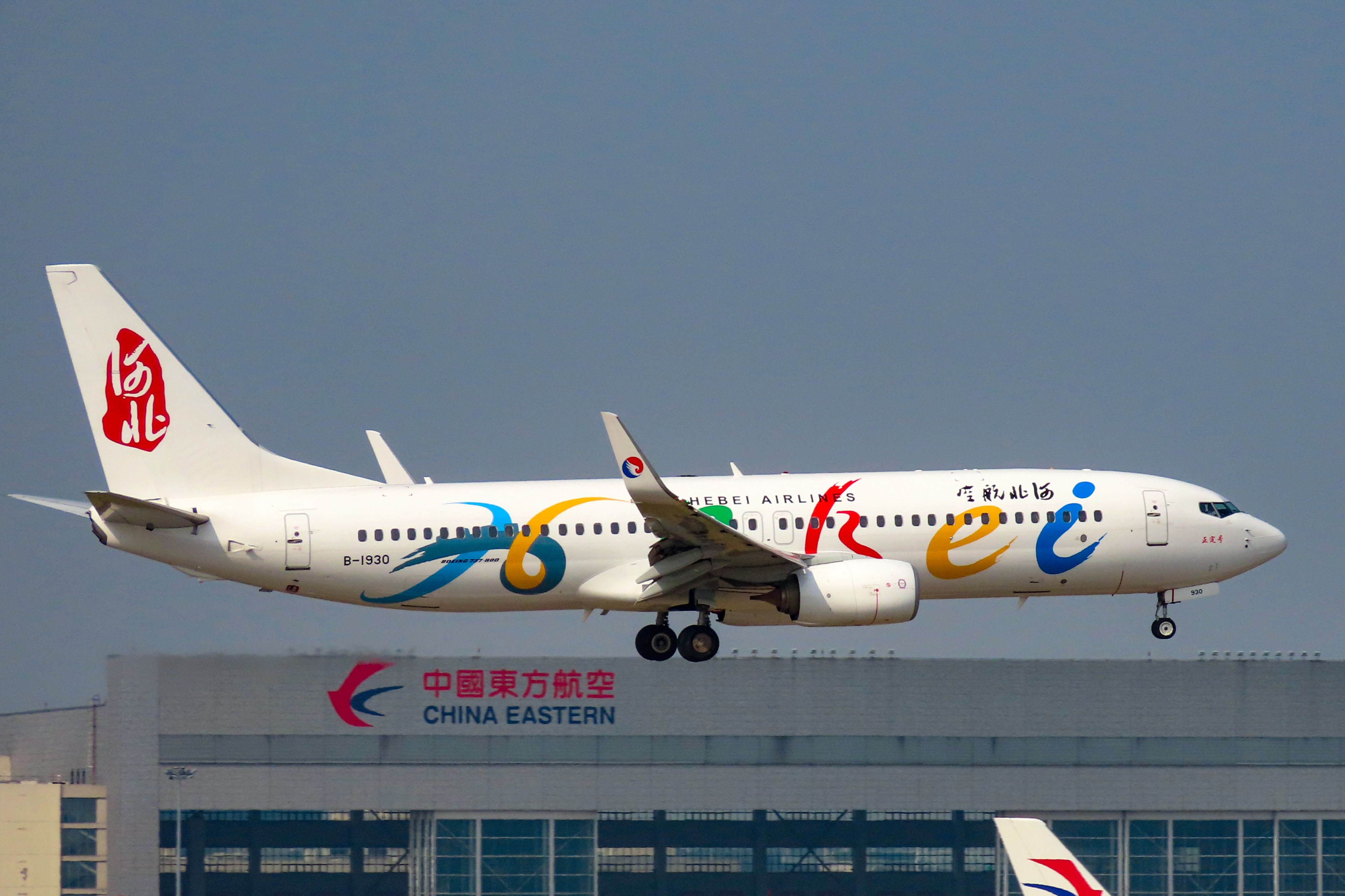 Hebei 3219 from Shijiazhuang. The "H" looks like the Beijing 2008 Candidate City logo...